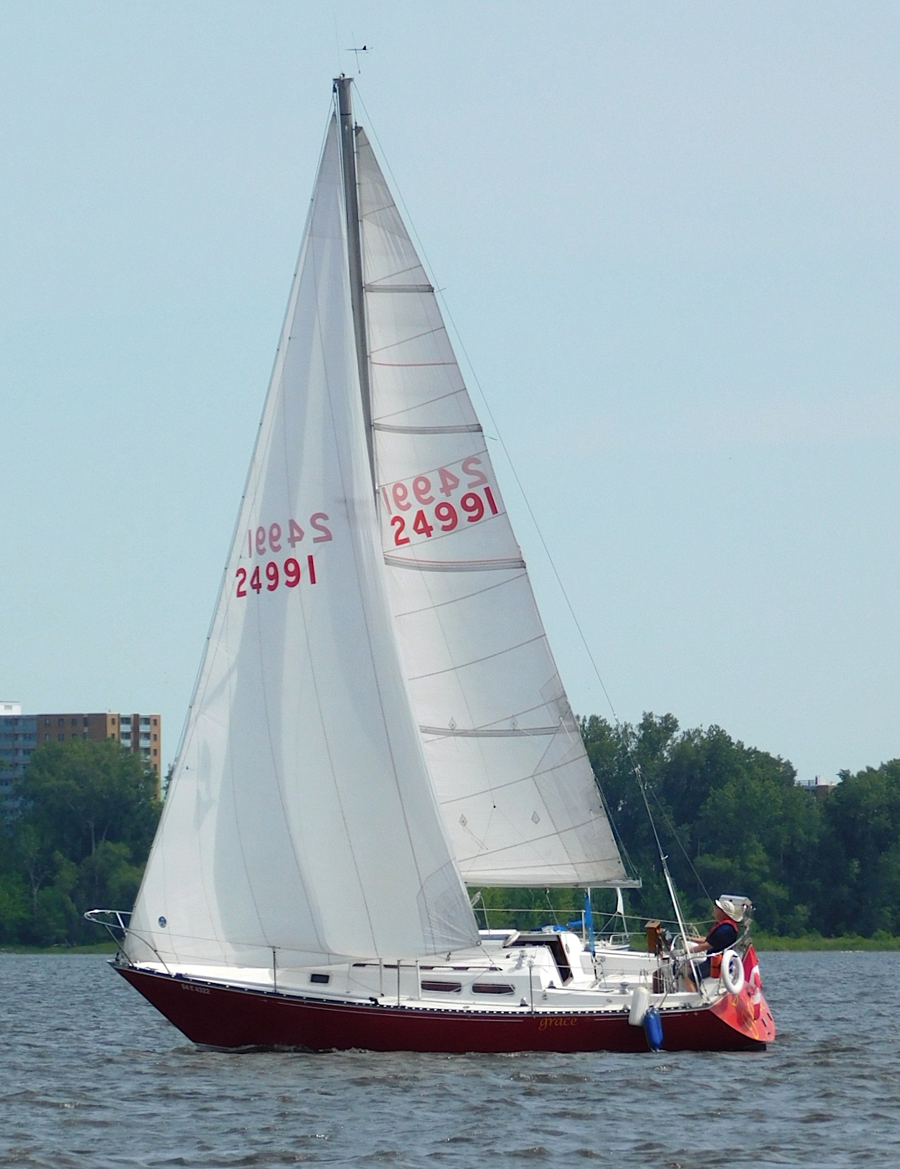 A C&C 29 Mark I sailboat named Grace.